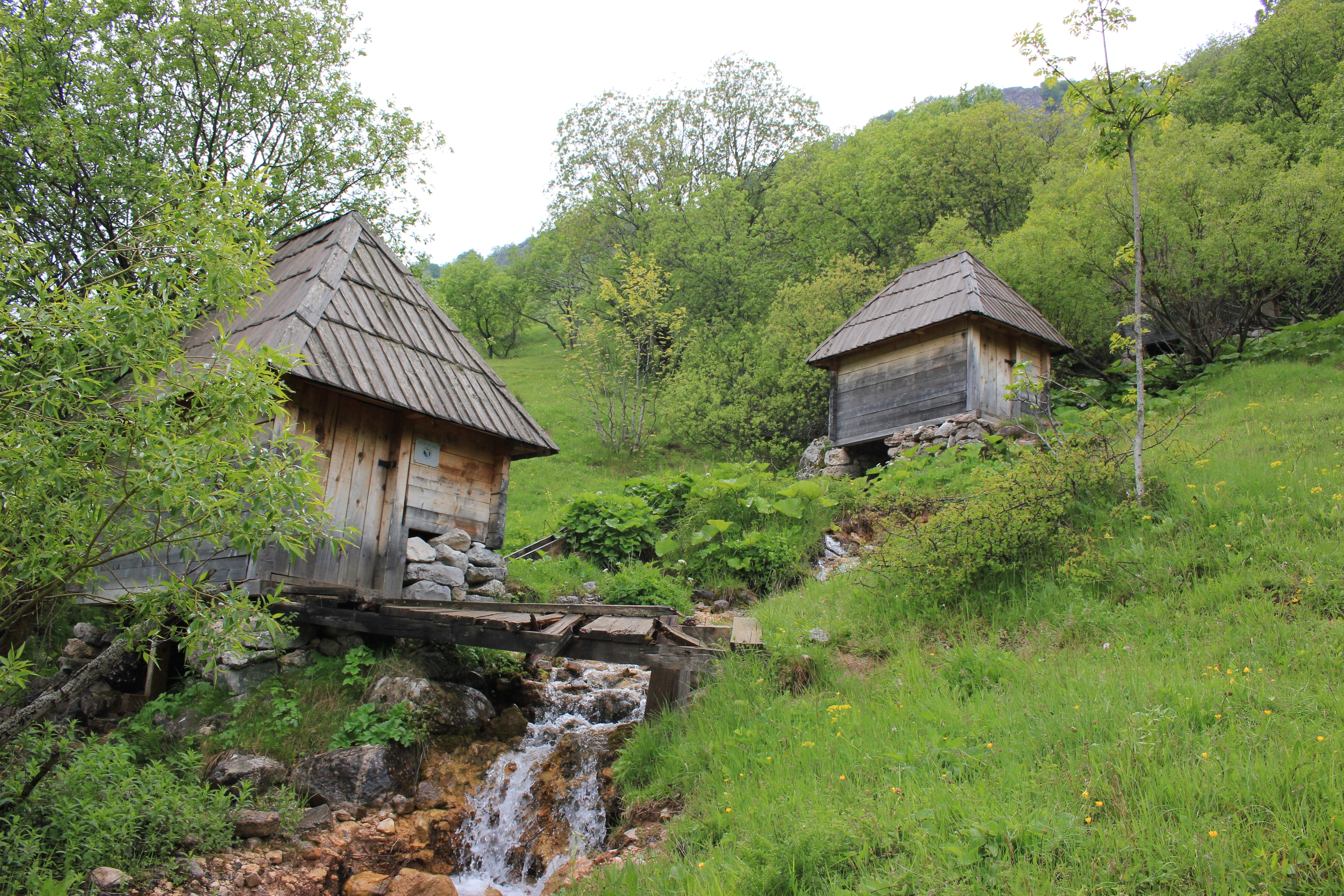 Former water mills near Umoljani, Bosnia and Herzegovina.